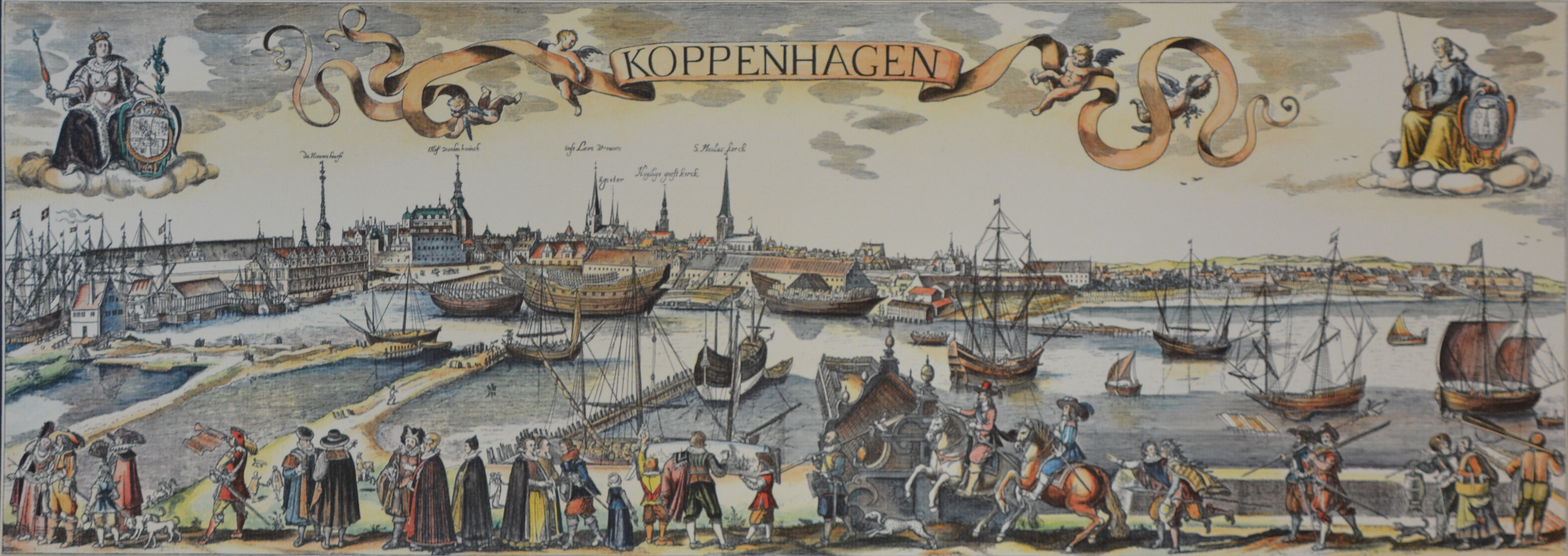 Köpenhamn, H. Alard 1685